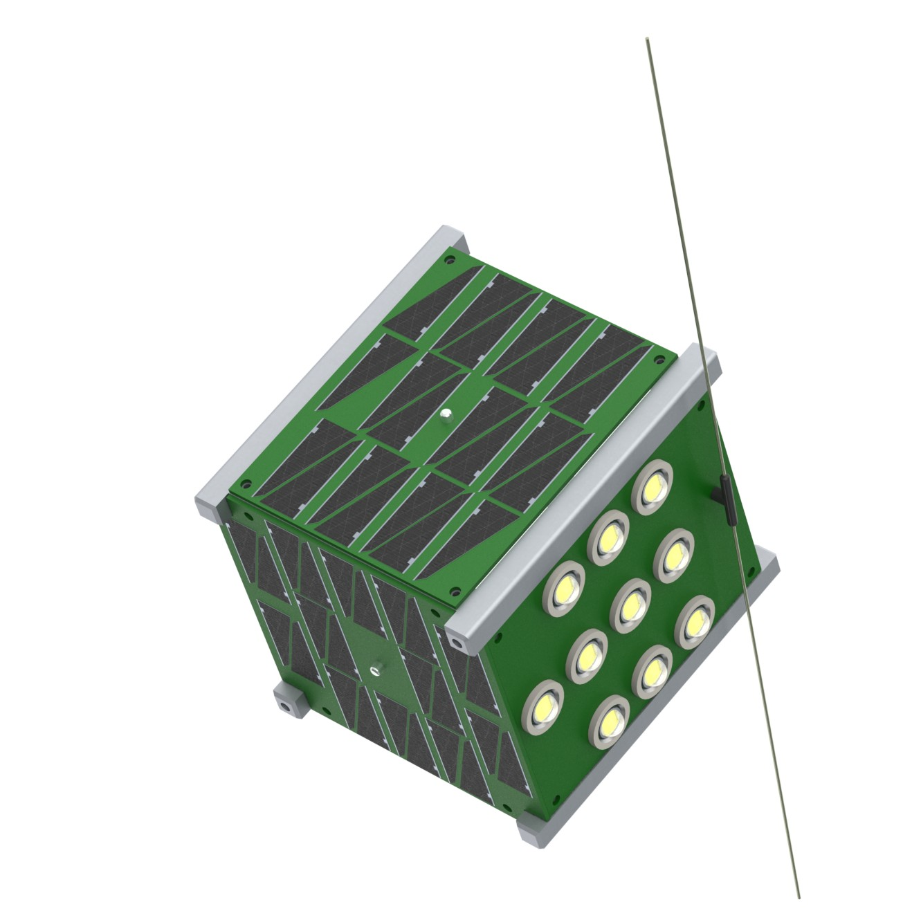 Render of the EQUiSat CubeSat, made by Brown University CubeSat Team